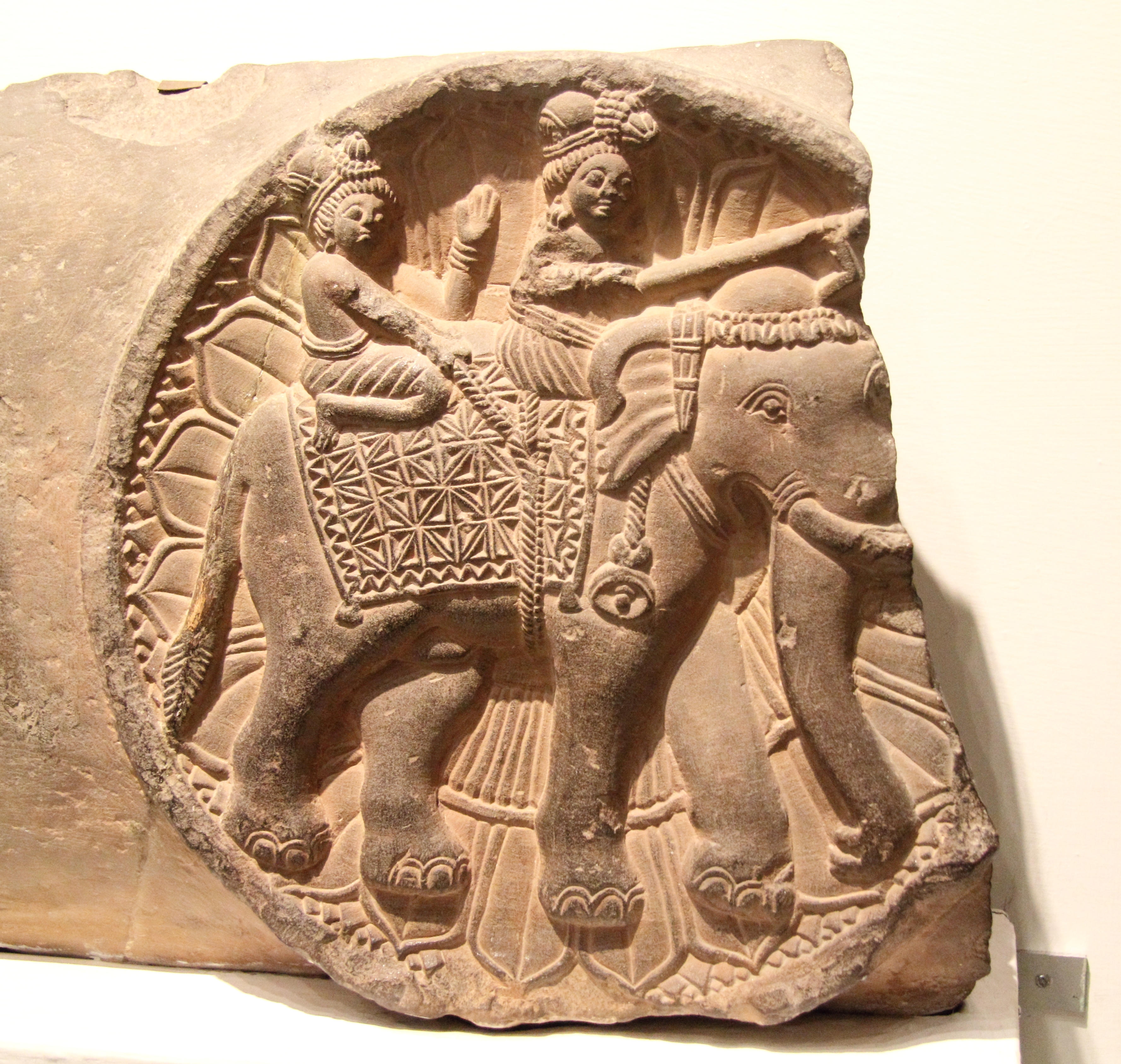 India: National Museum, New Delhi, railing crossbar from a stupa from the time of the Shunga Empire, 2nd century B.C.E., Mathura, Uttar Pradesh, carved sandstone